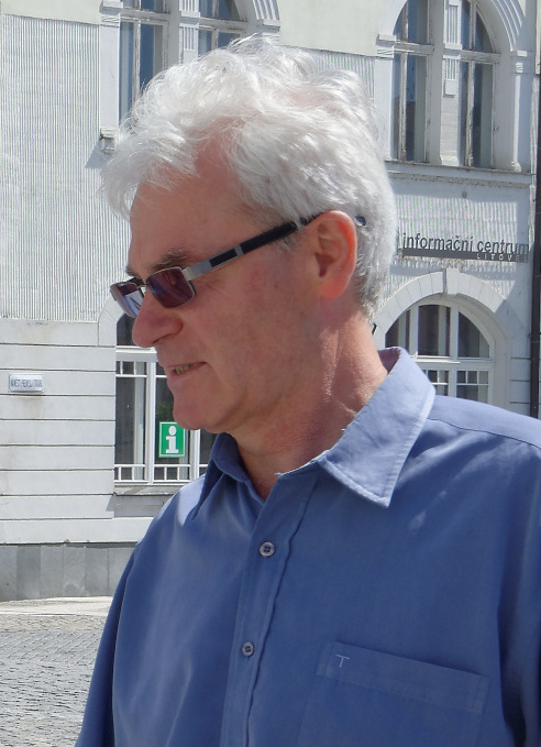 Mayor of Litovel Zdeněk Potužák